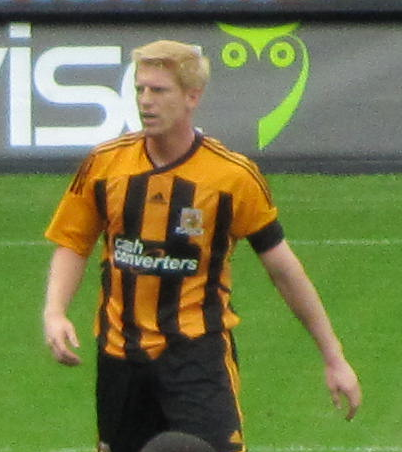 Paul McShane